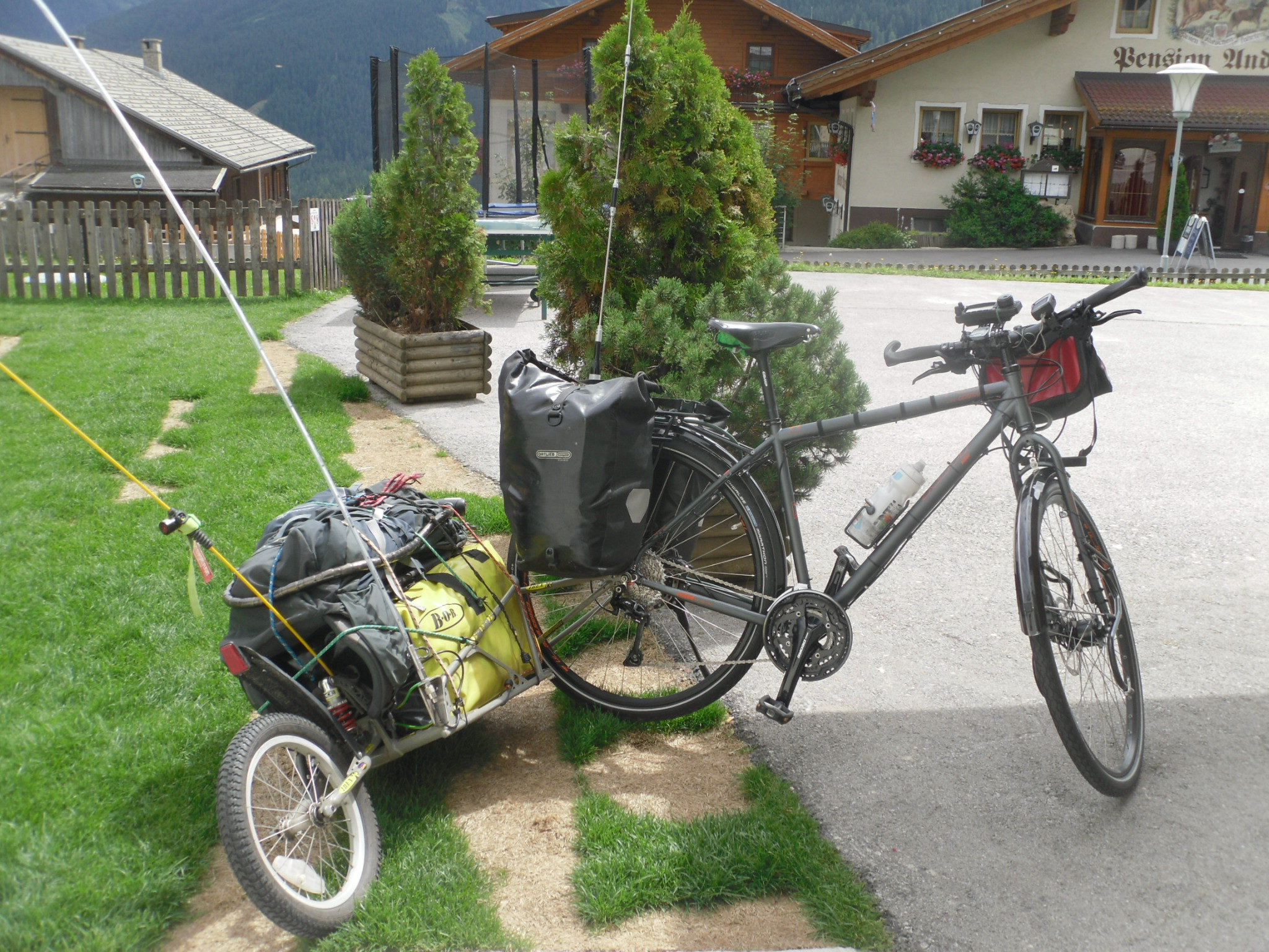 Amateur radio HF, VHF, UHF equipped bicycle with a mono-wheel trailer.